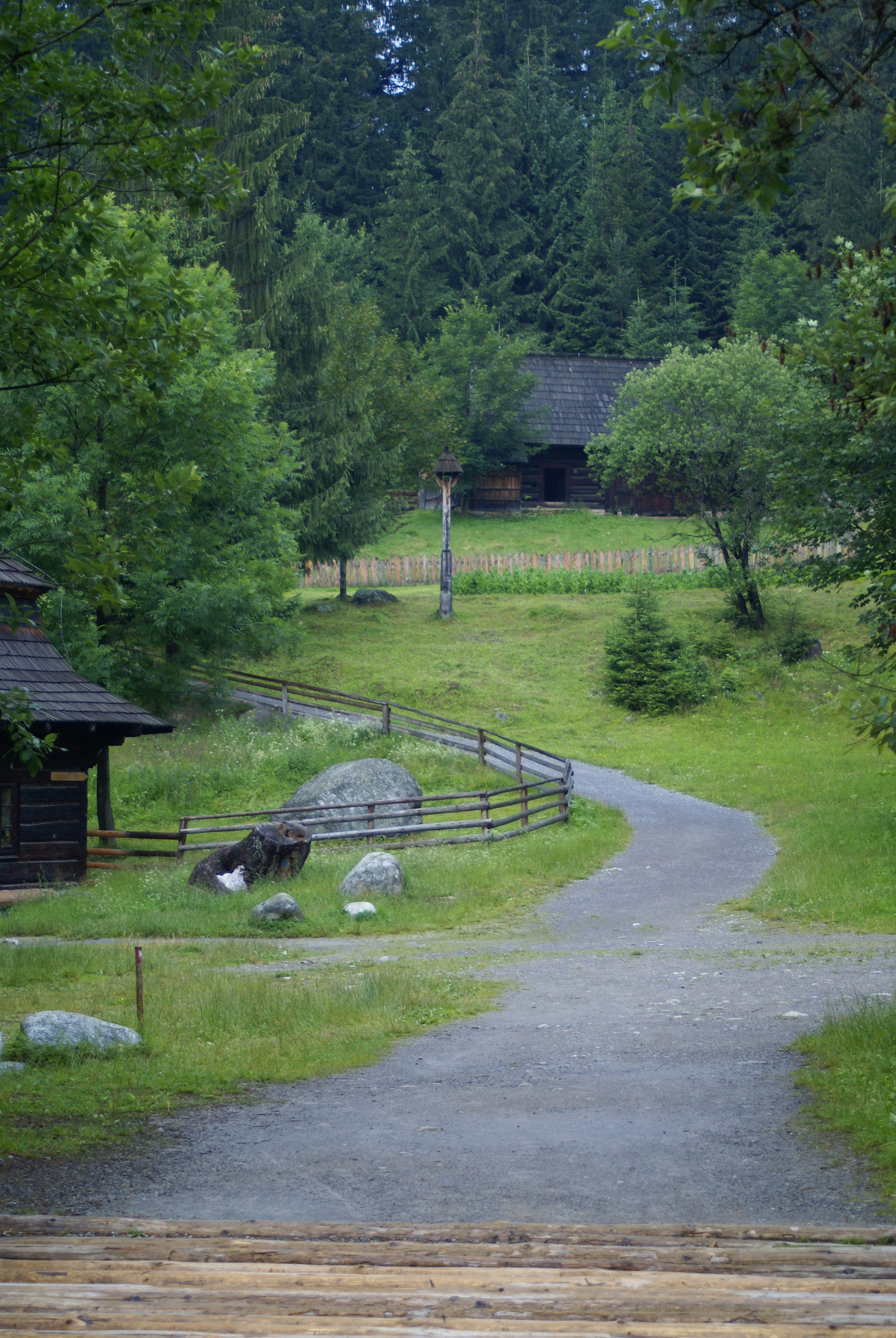 Open air museum of typical slovakian old Orava village, Zuberec, West Tatras, Slovak Republic